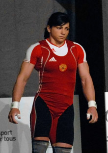 Svetlana Tsarukaeva just before snatching 117kg (world record) at the 2011 World Weightlifting Championships (WWC)